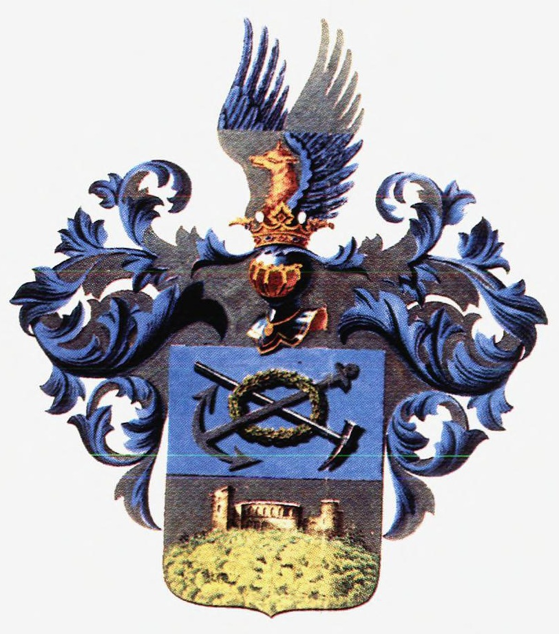 Coat of arms of Baron Wilhelm Christian Benecke von Gröditzberg